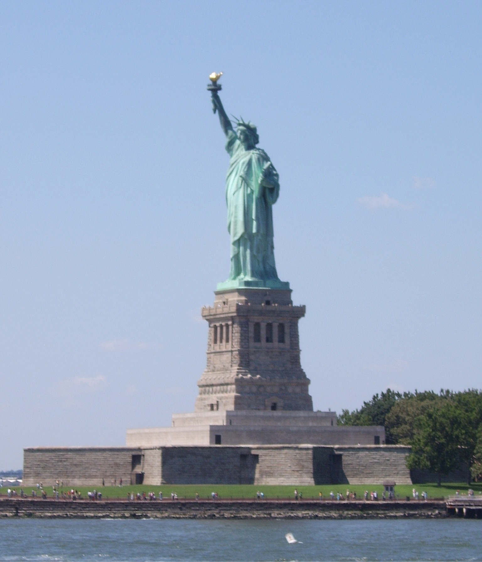 The Statue of Liberty on Liberty Island